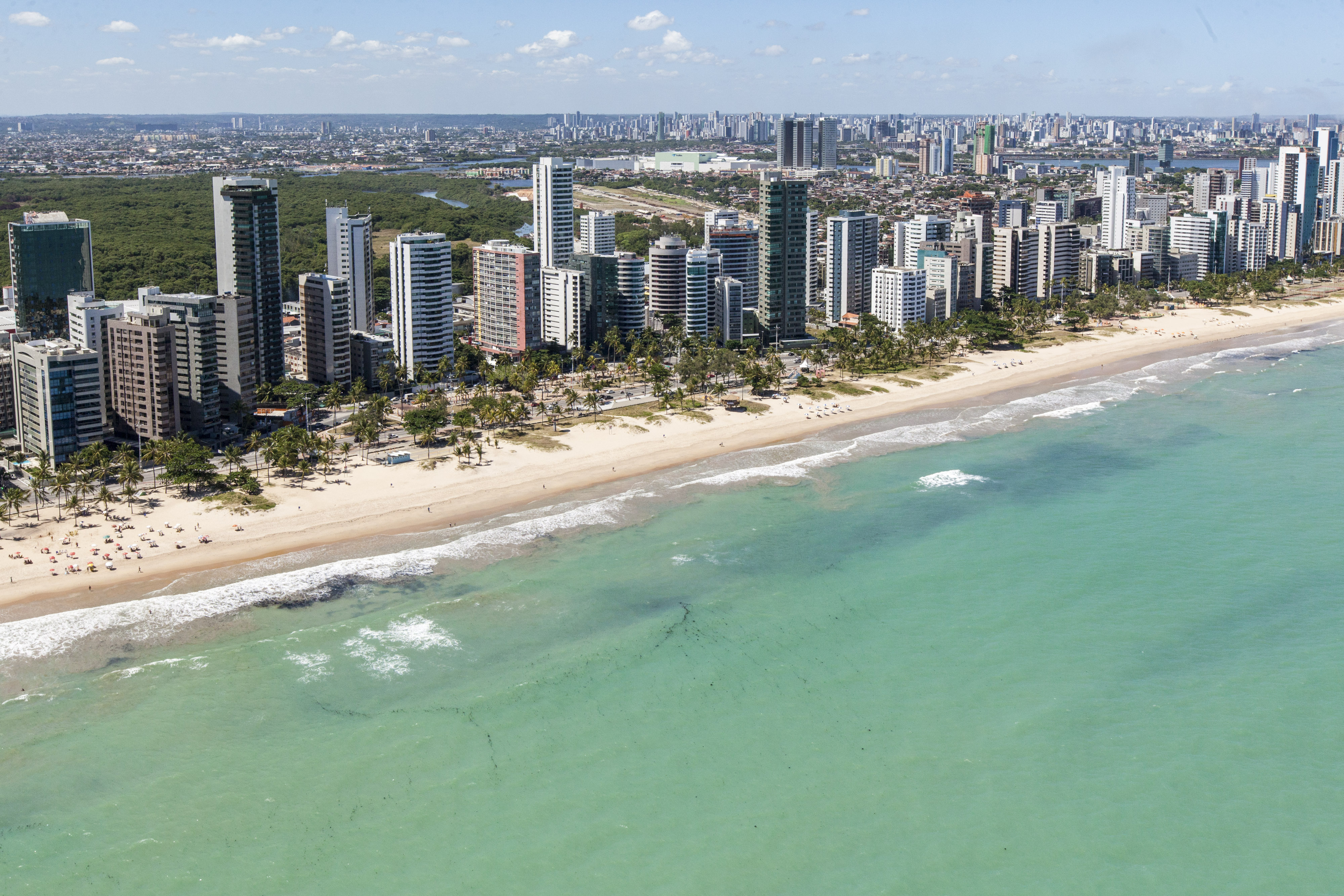 Pina Beach - Recife, Pernambuco, Brazil